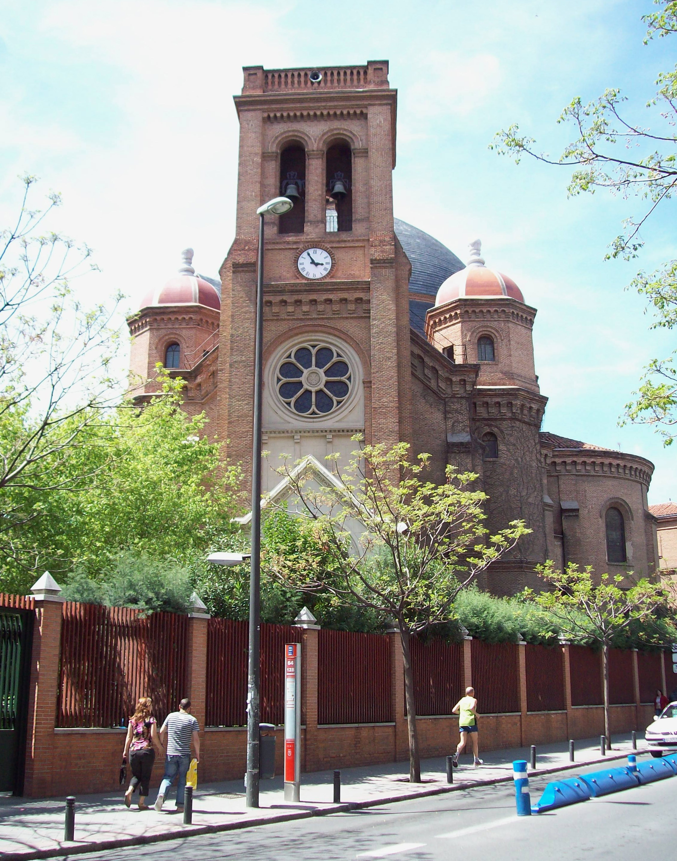 View of Iglesia de San Francisco de Sales ("Church of Saint Francis de Sales") in Madrid (Spain), at 3 Calle de Francos Rodríguez (street) in Tetuán district. It was projected in 1925 by architect Joaquín Saldaña López and built between 1926 and 1931.